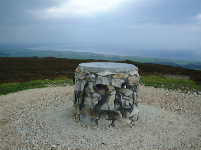 The New Summit Cairn of The Bin Of Cullen This view finder replaces the older larger cairn. This was erected by the Rotary Club of Buckie to mark the 2000 Millennium.